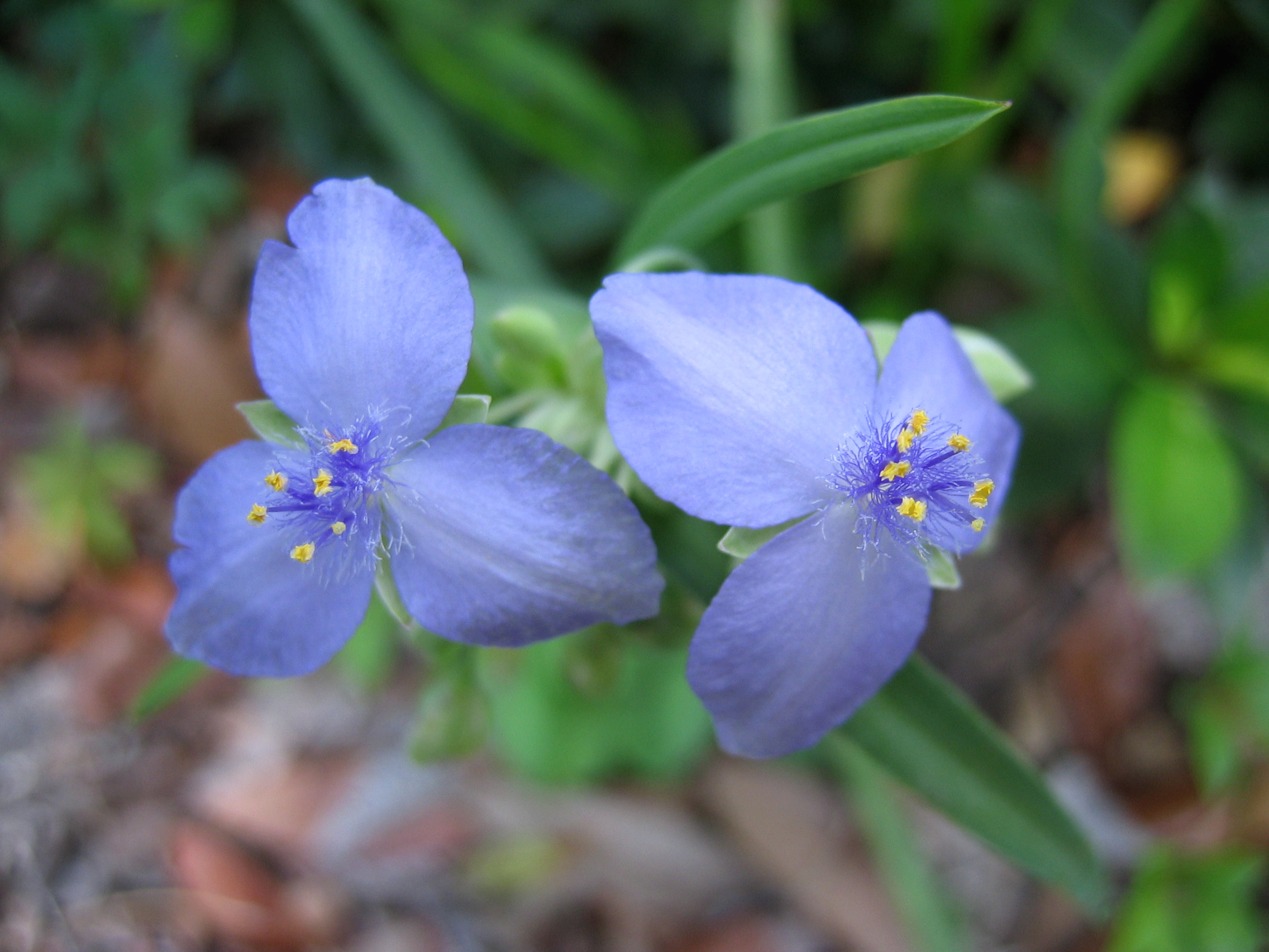 Photo of Spiderwort (Tradescantia ohiensis). Commelinaceae (spiderwort or dayflower) family.